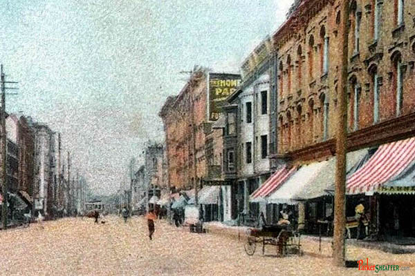 Parker Pen at 17-19 South Main Street, Janesville. The Home of the Jointless fountain pen.